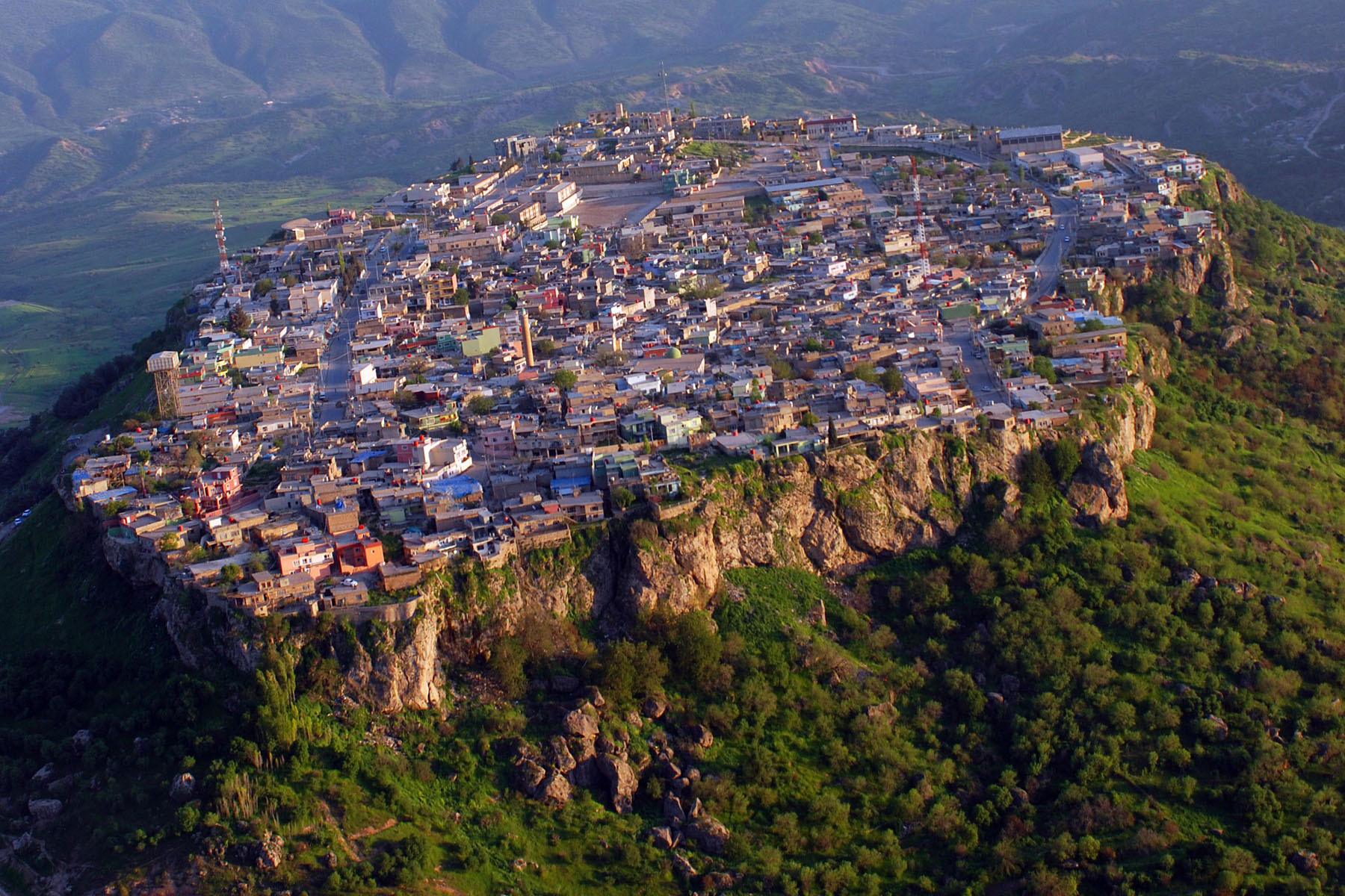 The picturesque village of Amedye, Iraq, sits on a mountain top between the desert and the fertile lands of Northern Iraq. Soldiers from Command Post-North, Task Force Lightning, flew over the village after taking part in Kurdish Labor Day celebrations nearby, May 1., 2009